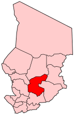 Map of Chad showing Guéra region.